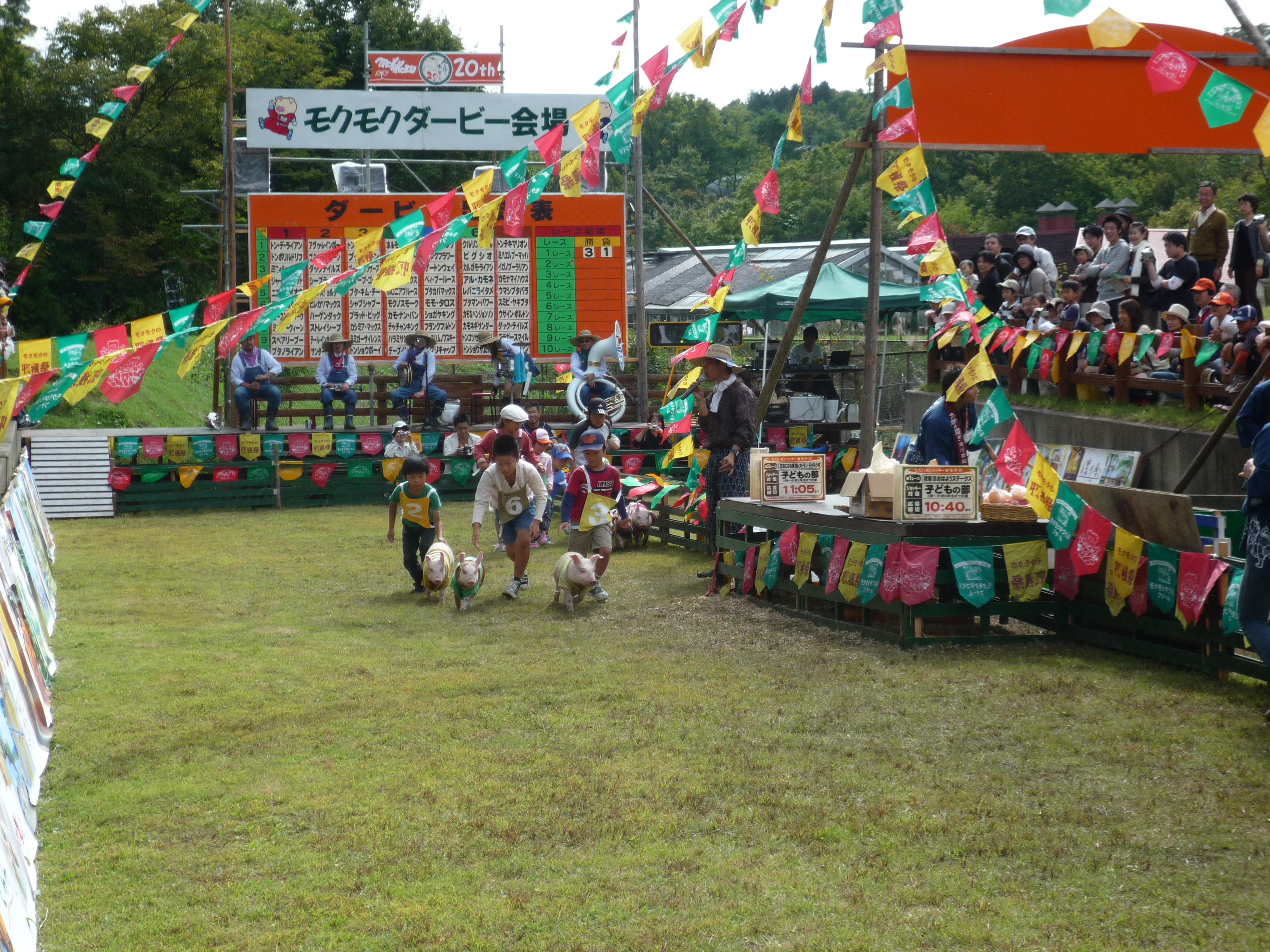 Mokumoku Derby